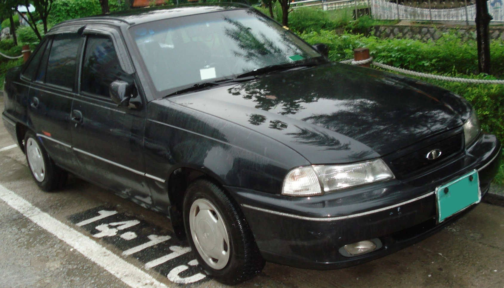 Daewoo Cielo